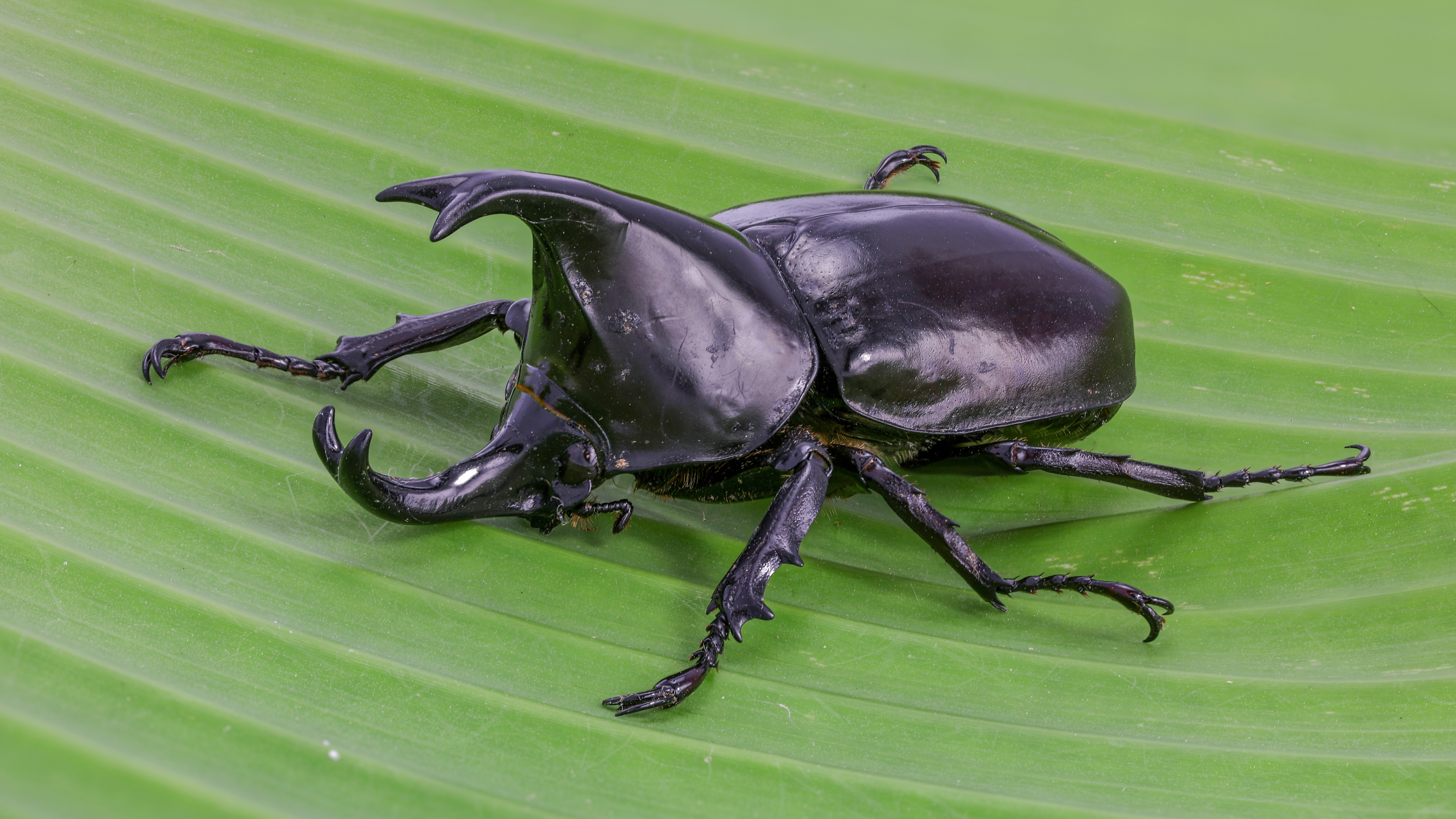 Xylotrupes socrates (Siamese rhinoceros beetle, or "fighting beetle"), male, on a banana leaf, Focus stacking from 23 images. This scarab beetle is particularly known for its role in insect fighting in Northern Laos and Thailand.